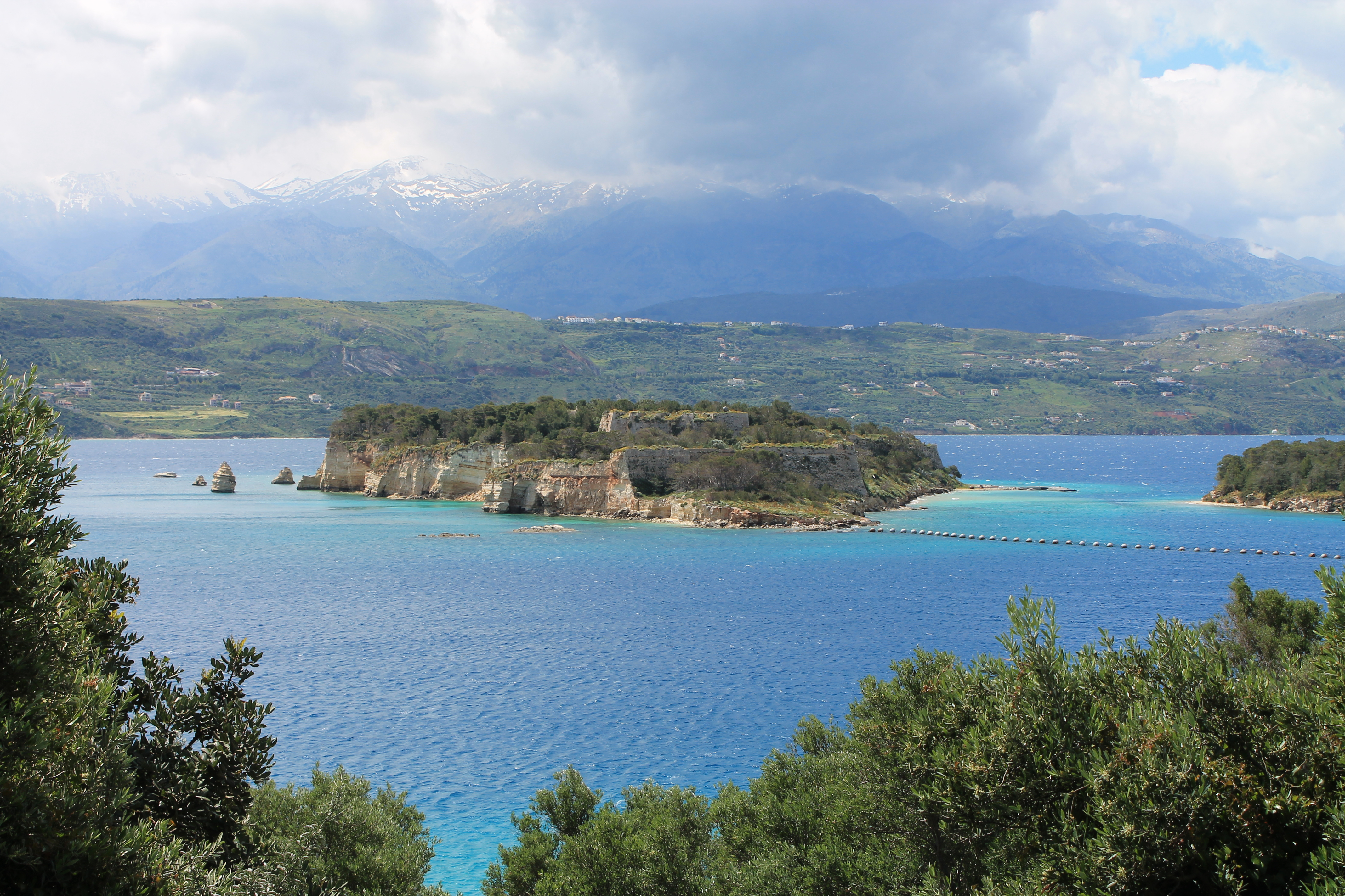 Souda is the name of the small island that stands like a guard in the entrance of the gulf of Souda (Crete) with the old Venetian fortress.